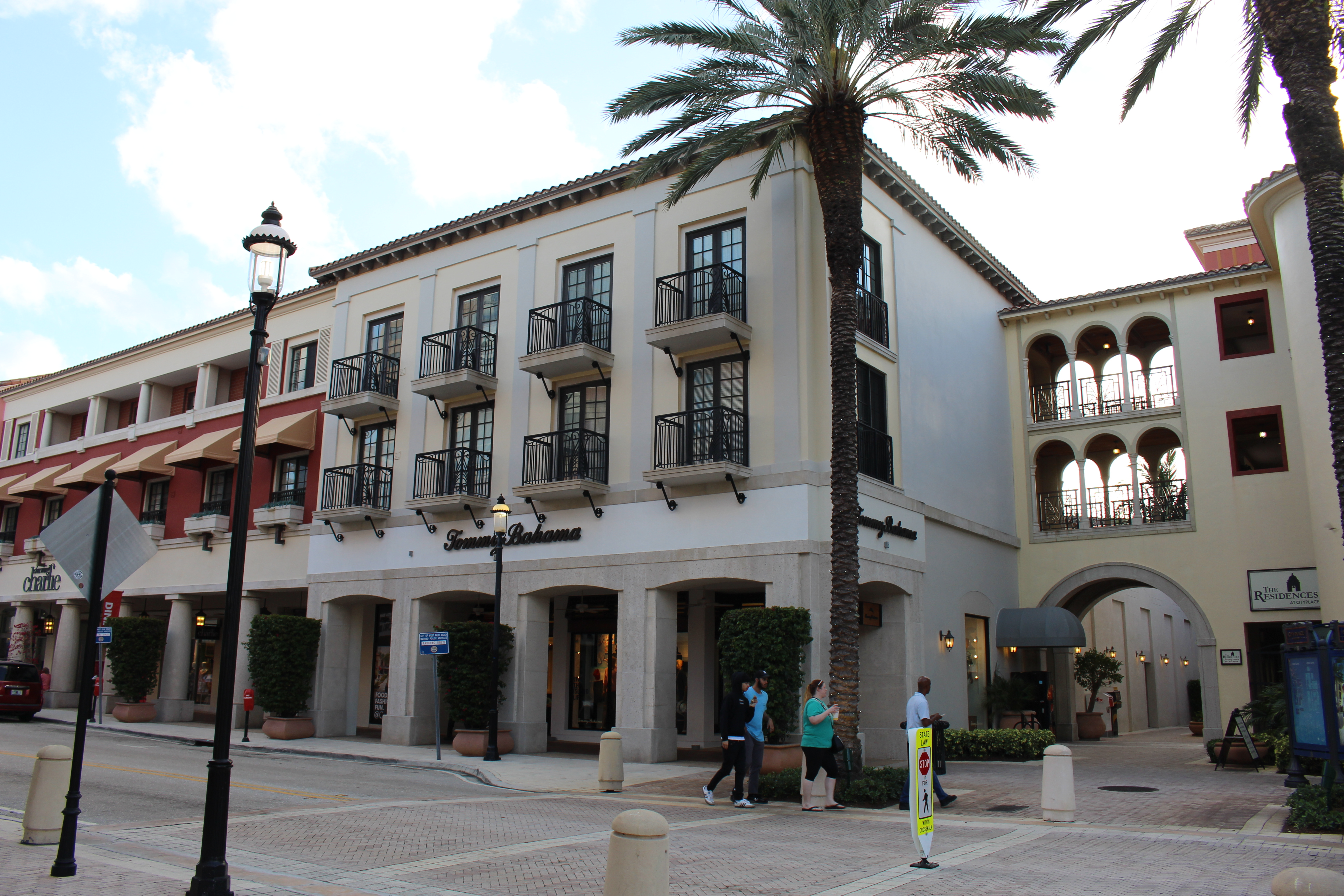 CityPlace, West Palm Beach, Palm Beach County, Florida